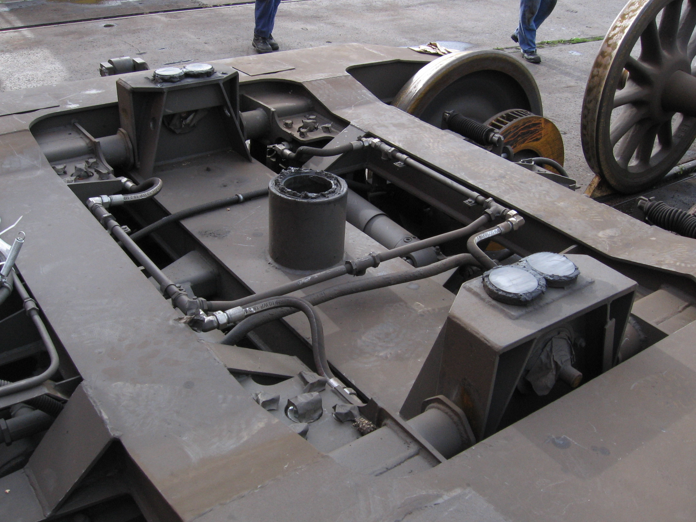 Bogie GP 200 of Class Bbdgmee236 coach